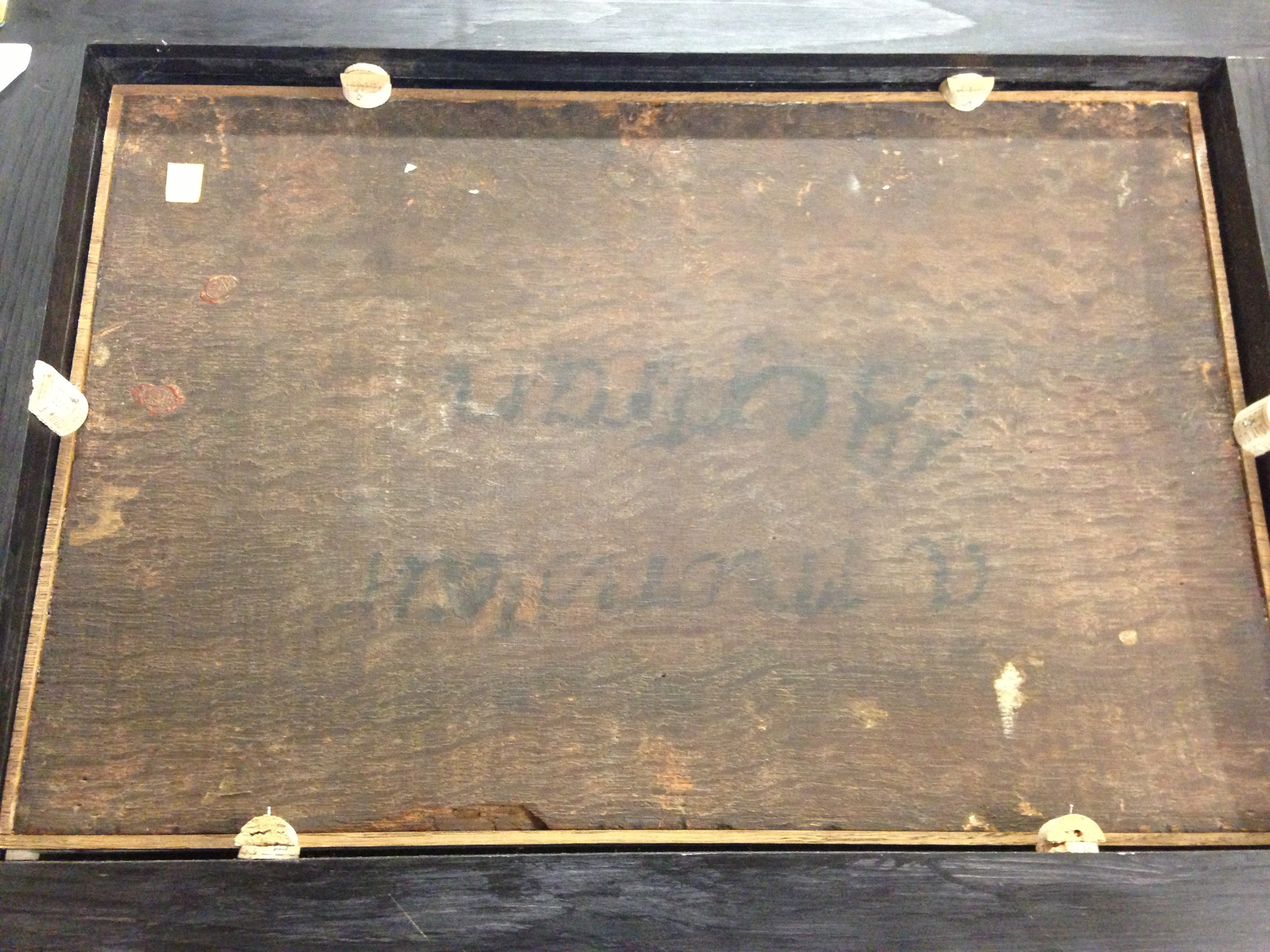 This illustrates the back of a painting on oak panel by Jan Davidsz. de Heem (a breakfast still life on recto).